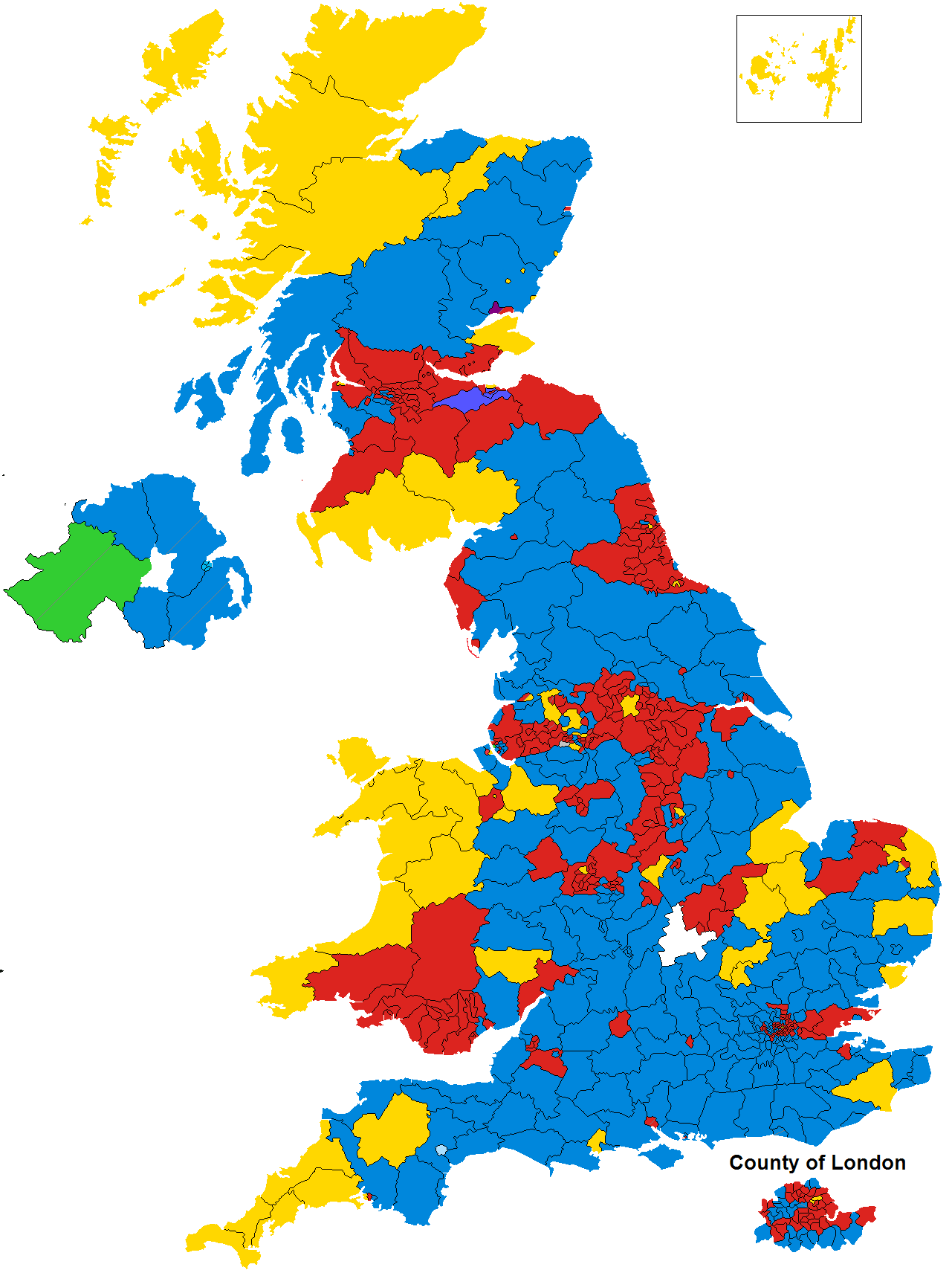 A map of the results of the United Kingdom general election, 1929.